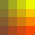 This is an image to demonstrate why there is no such thing as a brown light.